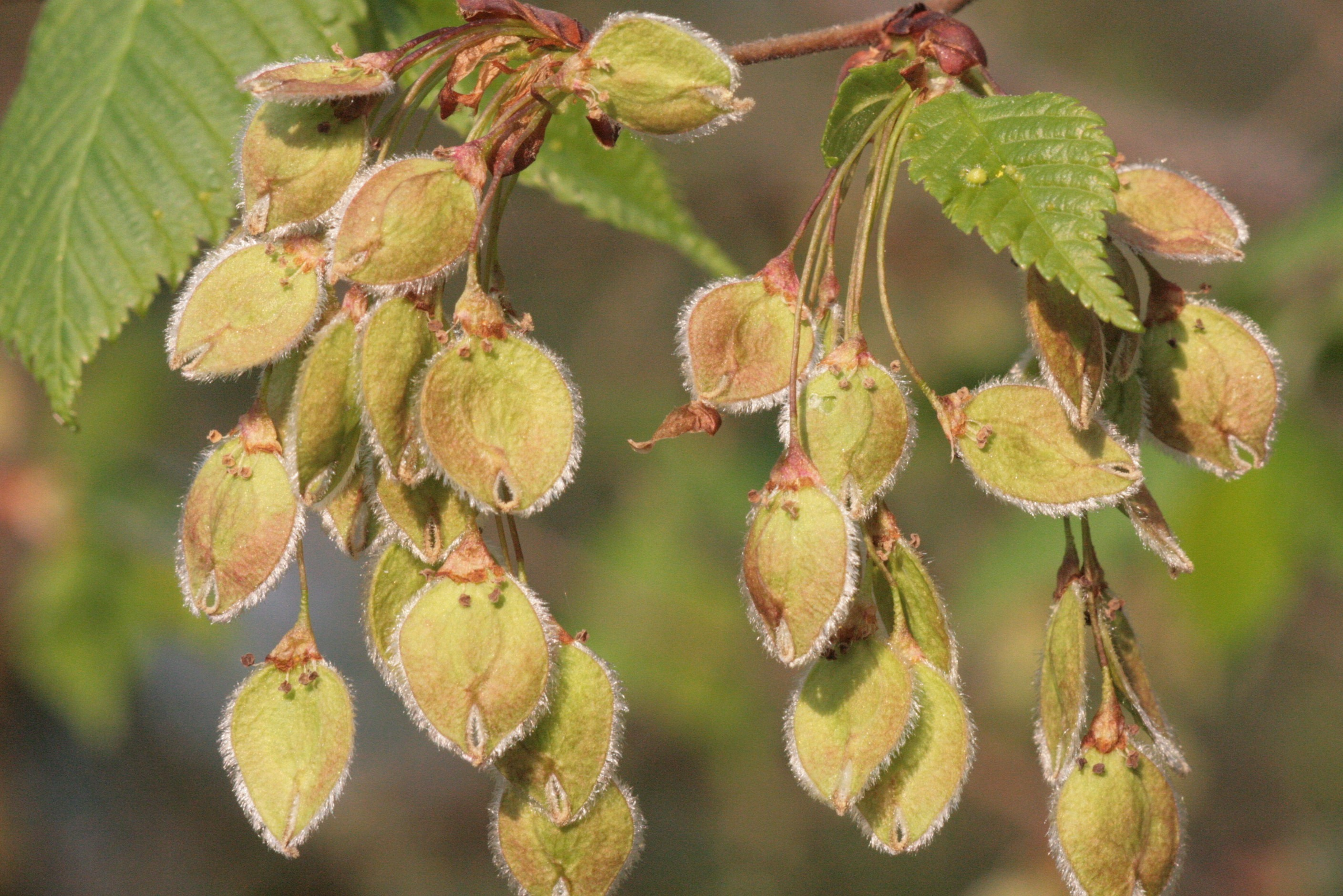 Ulmus laevis fruit, Donauau bei Wallsee - Ardagger, Niederösterreich, Austria